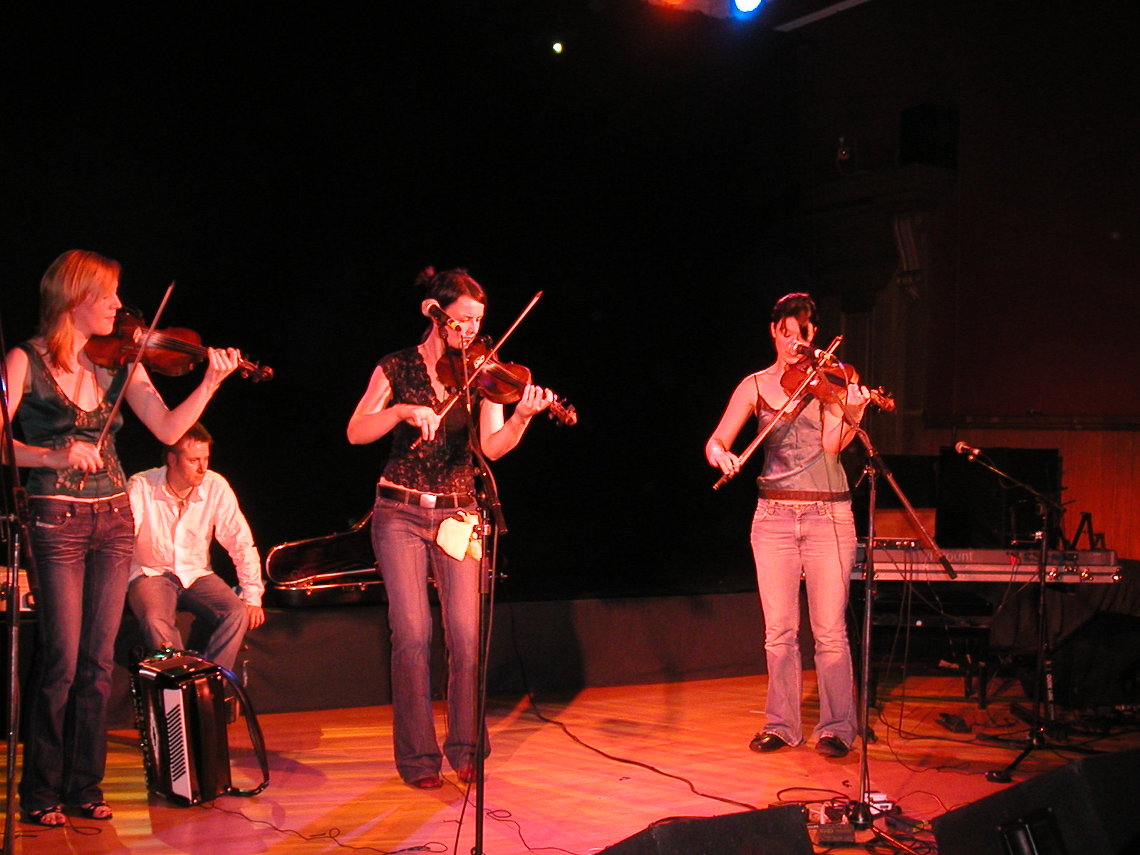 Filska Band at Edinburgh Festival, Reid Concert Hall 20040820